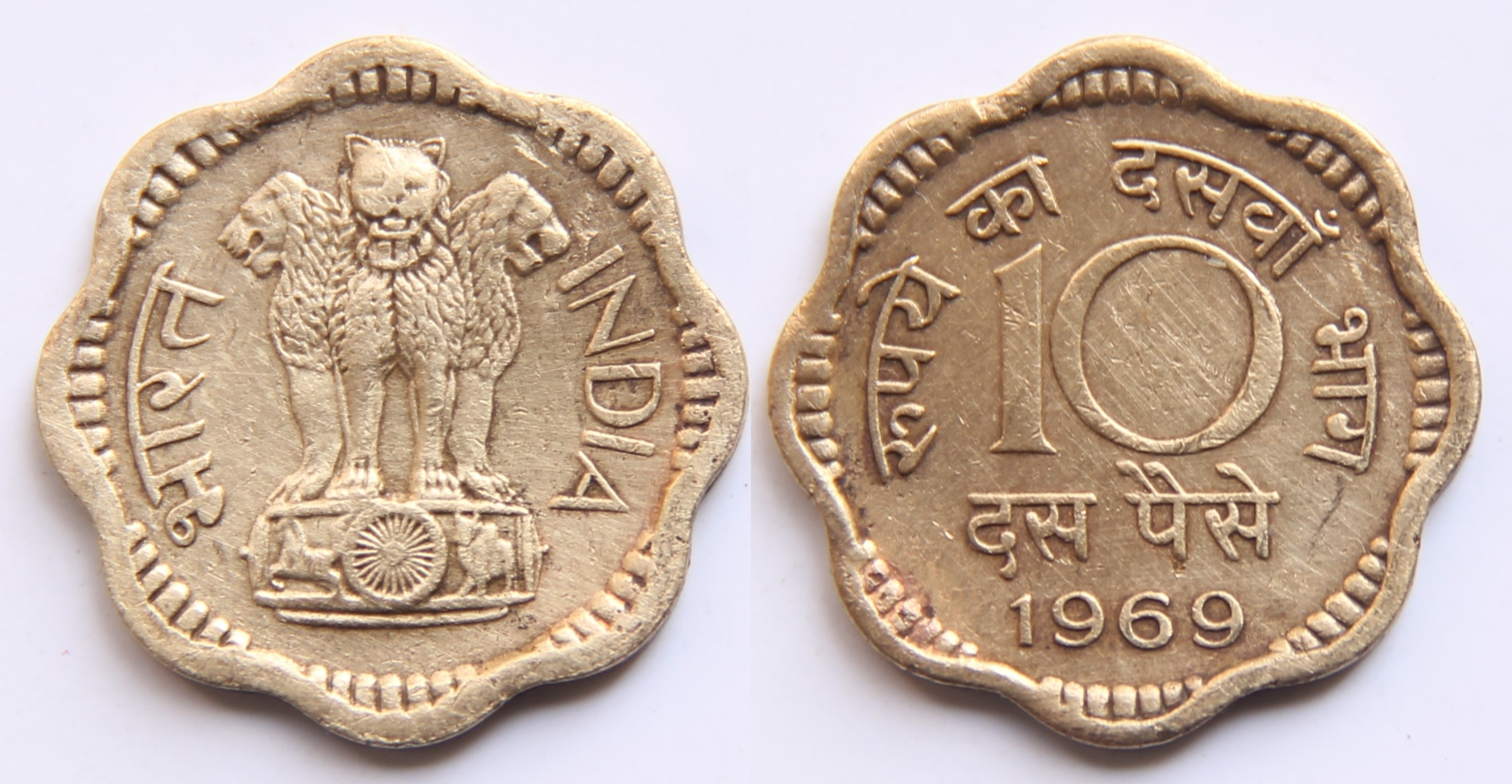 Face value: 10 Indian paise. Country: India. Year of minting: 1969. Metal: Nickel-brass. Shape: Scalloped. Obverse: State Emblem of India and country name. Reverse: Face-value and year. Lettering on top: रुपये का दसवाँ भाग (